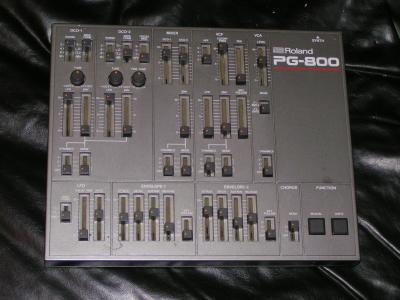 Photograph of Roland PG-800 Synthesizer Programmer